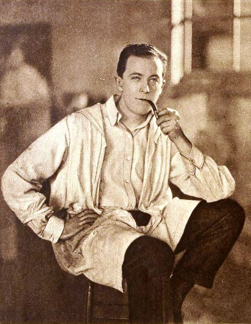 Actor Eugene O'Brien on page 30 of the January 1920 Shadowland.